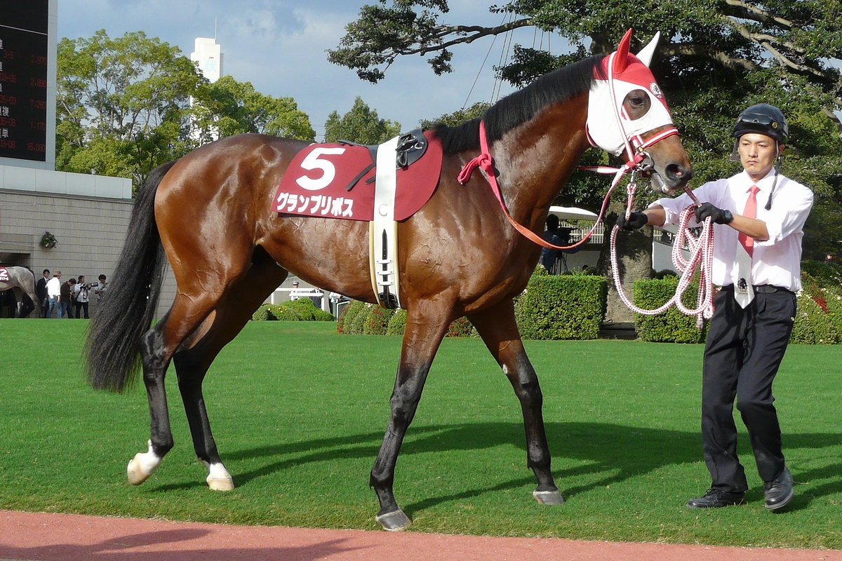 Grand-Prix-Boss20101016